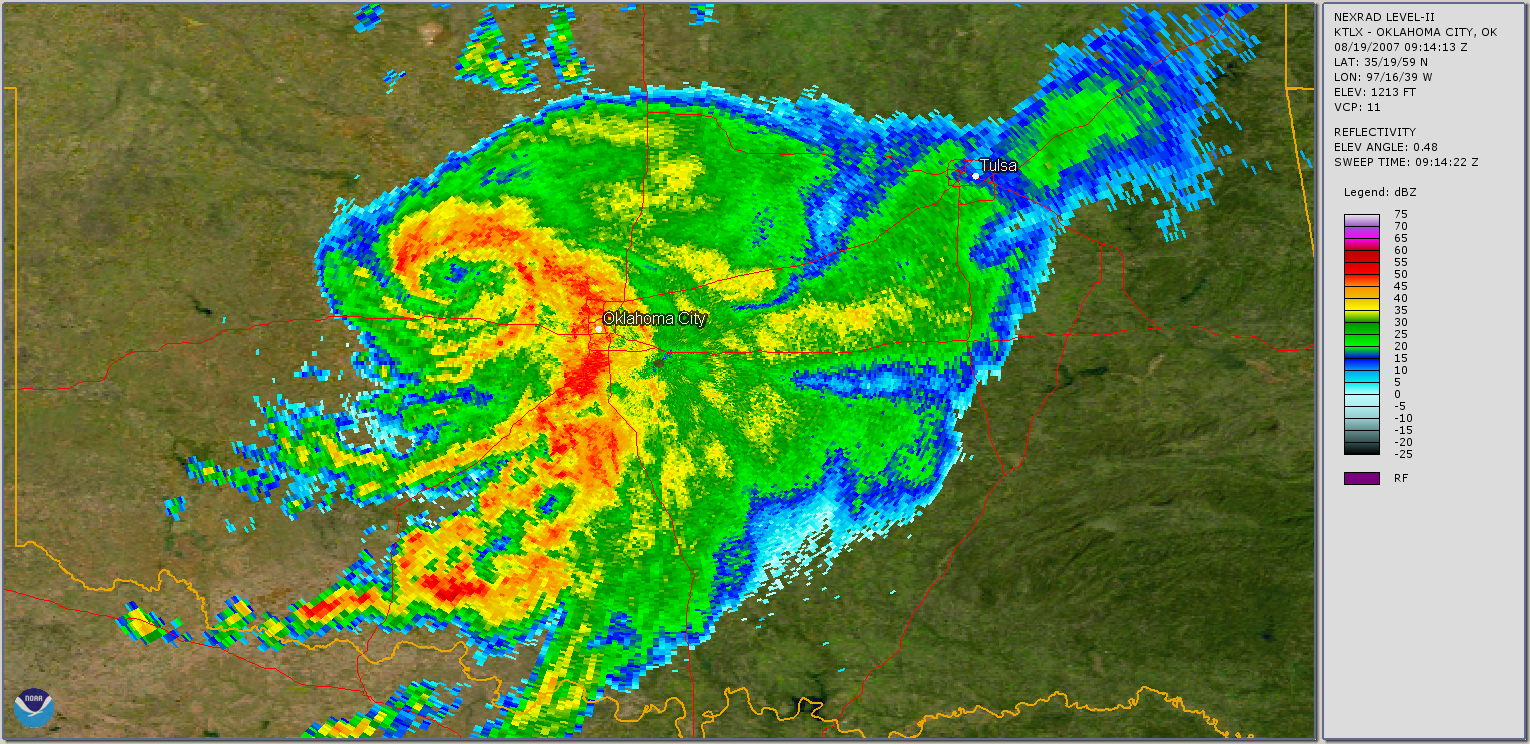 Tropical Depression Erin passing through Oklahoma on August 19, 2007, as seen from NOAA WSR-88D radar in Oklahoma City. At this stage the dissipating Erin showed a feature more common to hurricanes, an "eye".